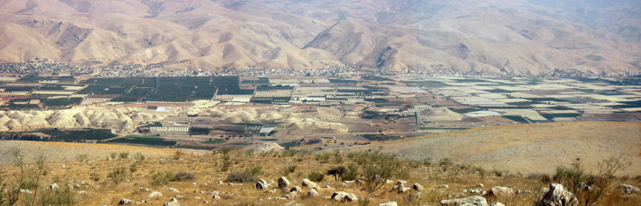 View over the Jordan Valley from Sartaba, Israel